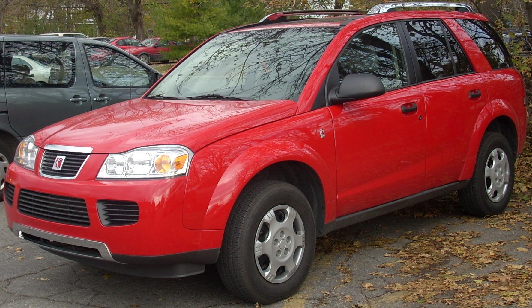 2006-2007 Saturn Vue photographed in Montreal, Quebec, Canada.